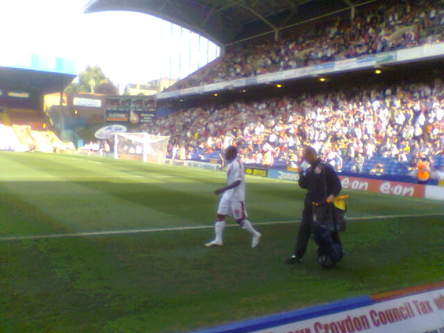 Crystal Palace F.C. attacking midfielder Victor Moses. Taken on 20 September 2008.